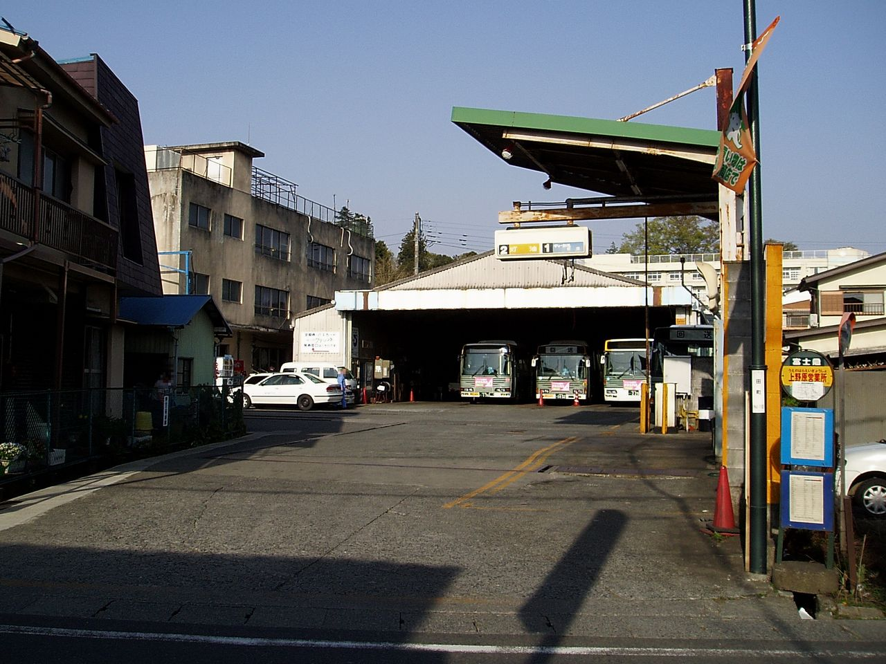 Fujikyu Yamanashi Bus Uenohara Branch